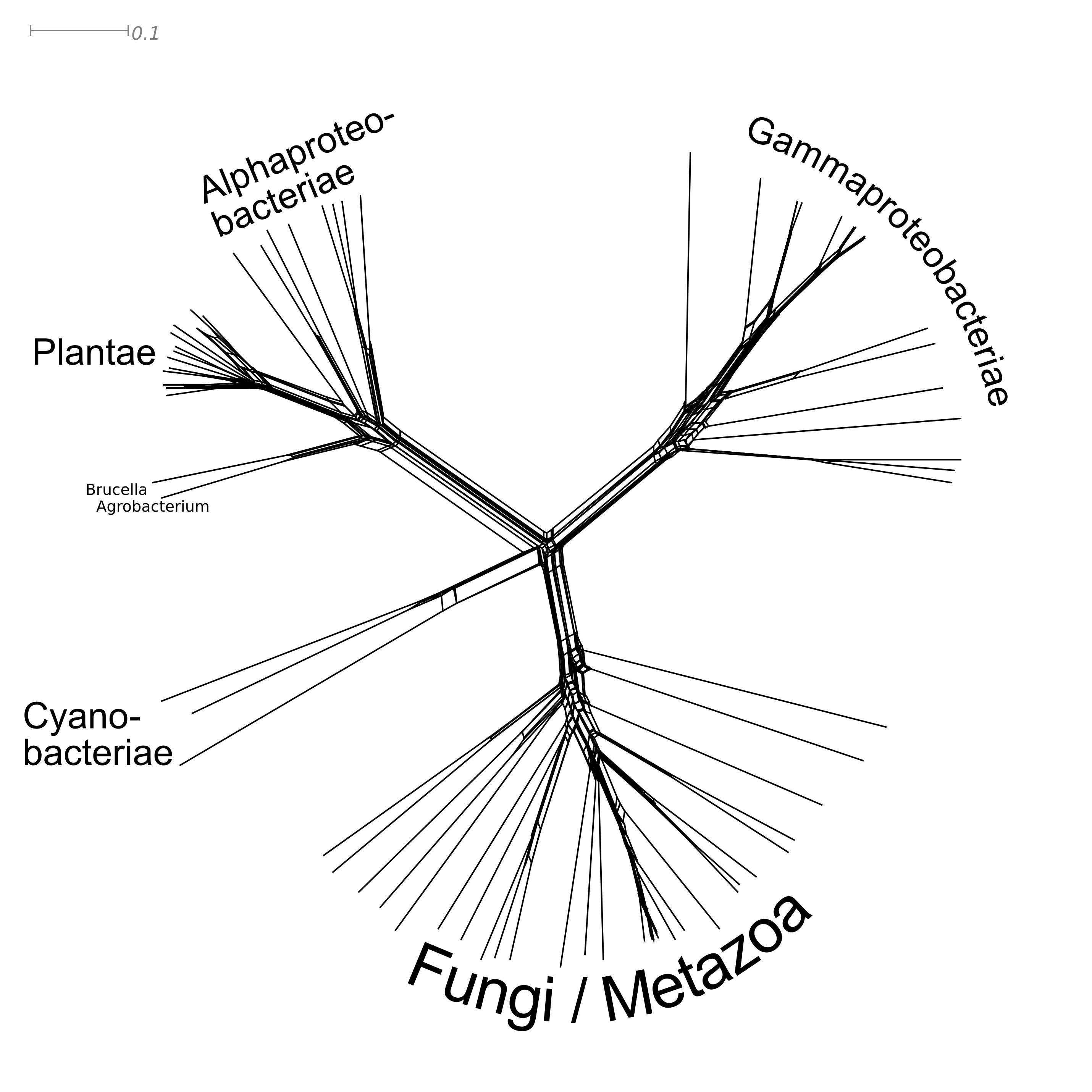 Split network from JTT distances of glutamyl cystein synthase of 75 species, computed with Bosque, using UniProt aminoacid sequences, and drawn with SplitTree. Ref.: Huson DH, Bryant D (February 2006). "Application of phylogenetic networks in evolutionary studies" (pdf). Mol. Biol. Evol. 23 (2): 254–67. PMID 16221896.